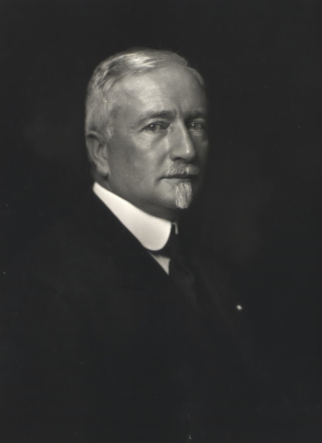 Image of deceased danish filmmaker and photographer Peter Elfelt (1866–1931) photographed by Peter Elfelt.